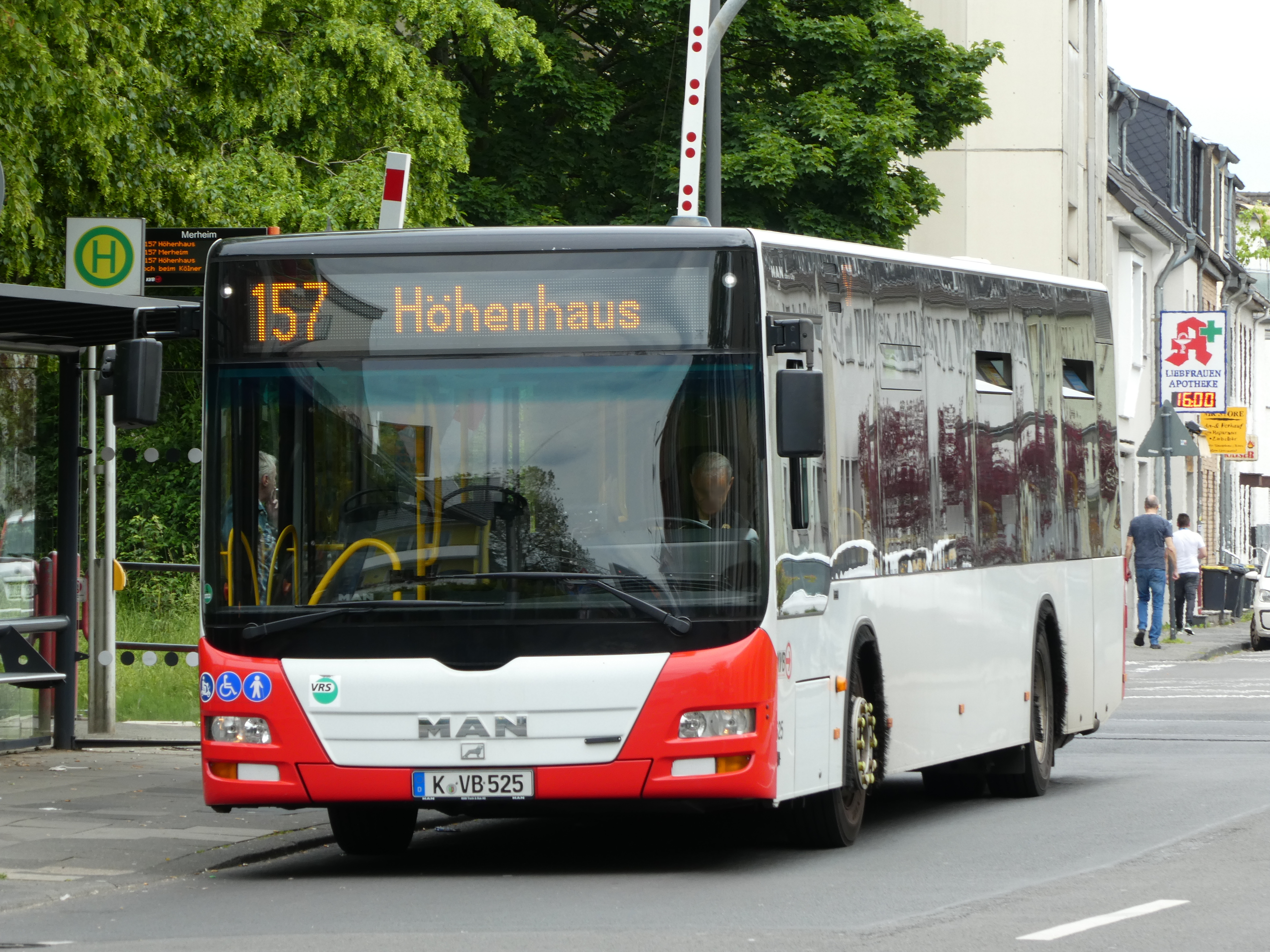 MAN Lion's City in Cologne